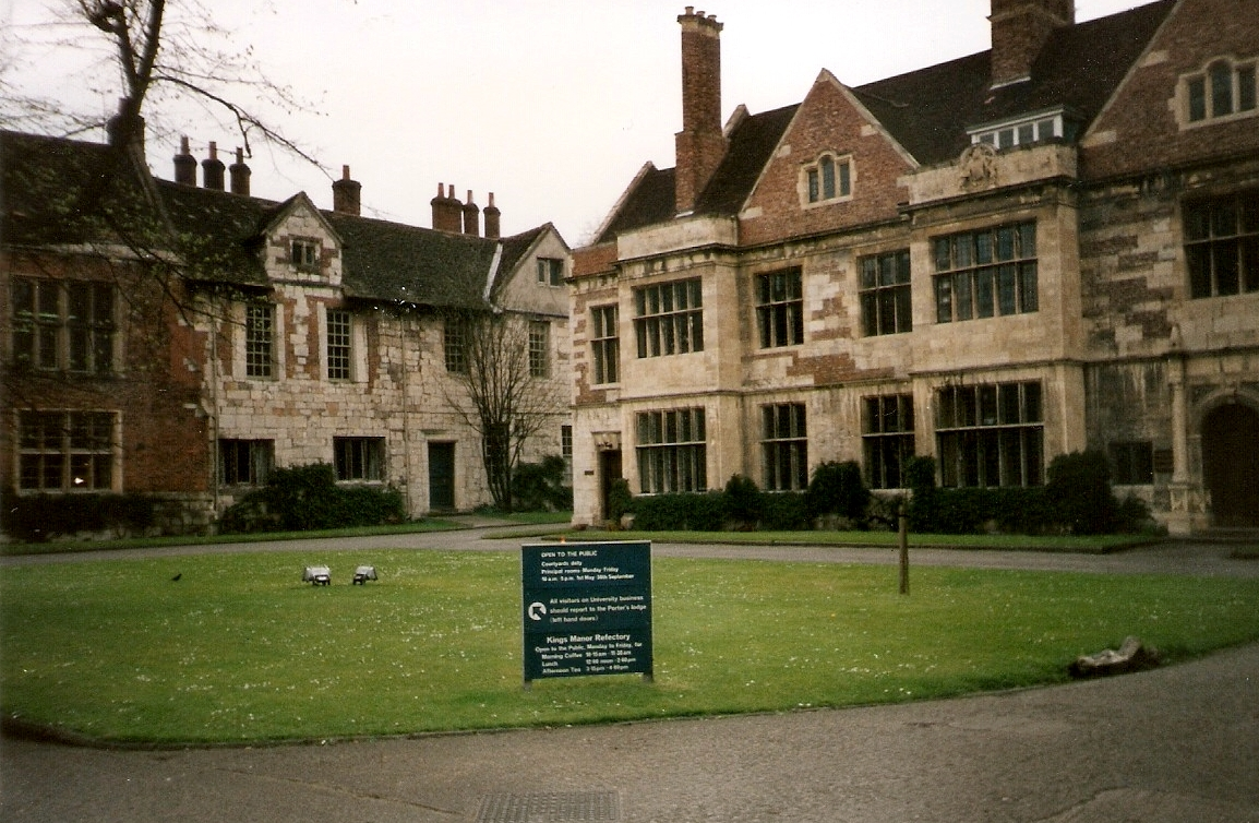 Lawn and buildings at entrance of King's Manor, York